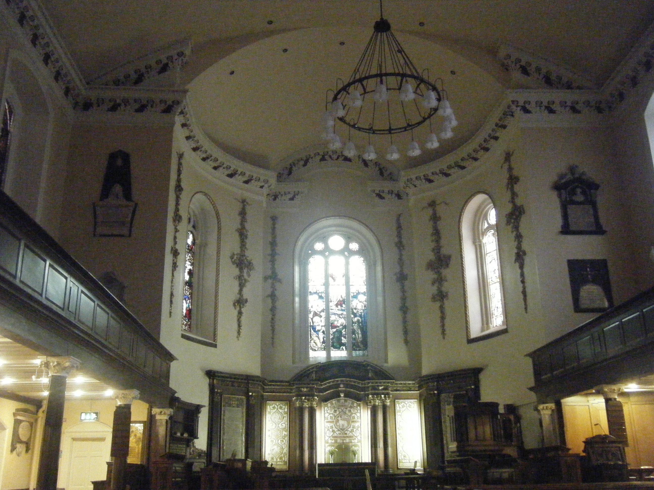 The apse of St. Ann's Church, Dublin, Ireland. Two loaves of bread are visible on the Bread Shelf to the left of the altar.